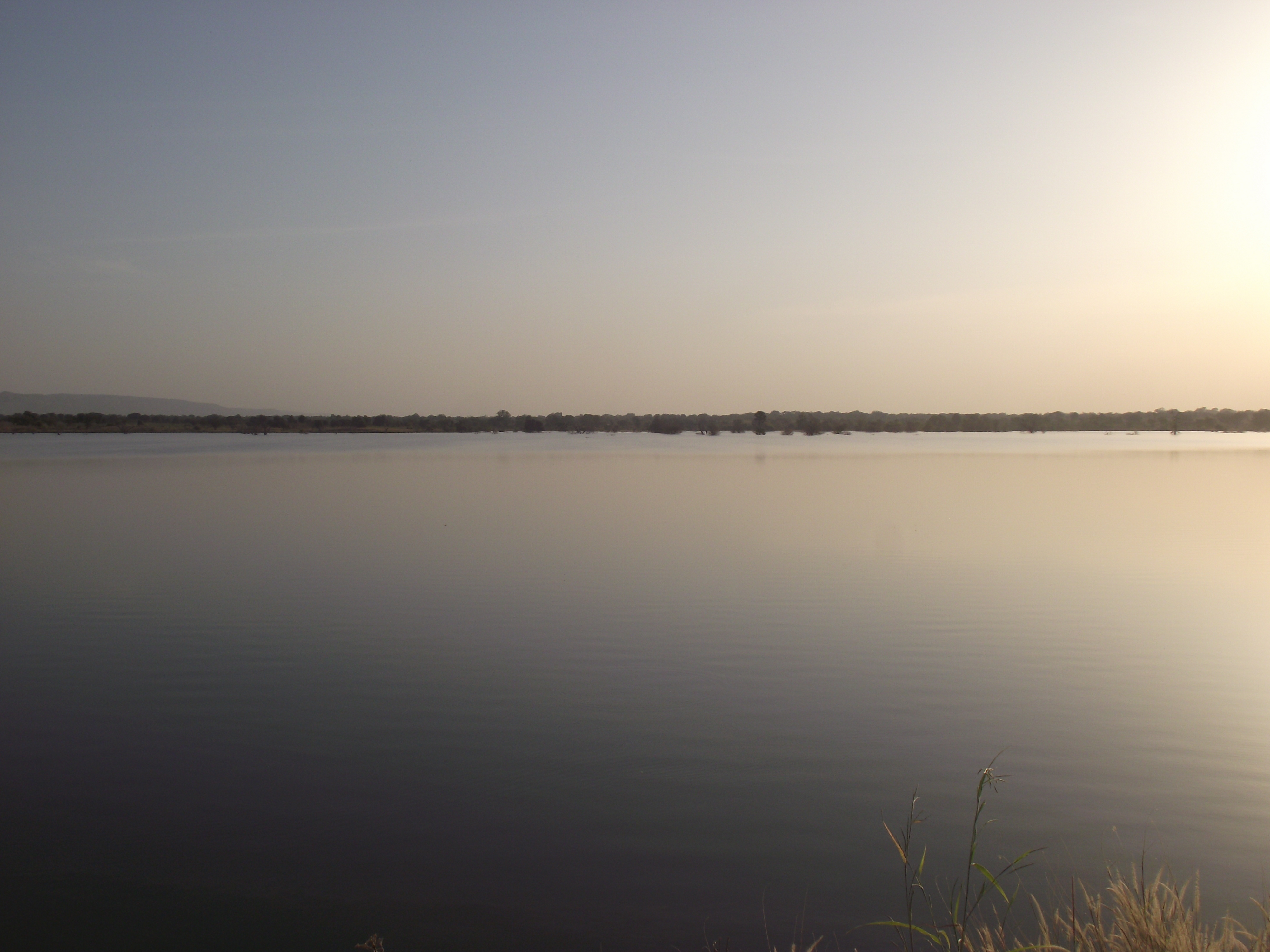 Cette retenue est située dans le village de Sepounga. Elle a été installée par l'administration publique pour l'alimentation en eau